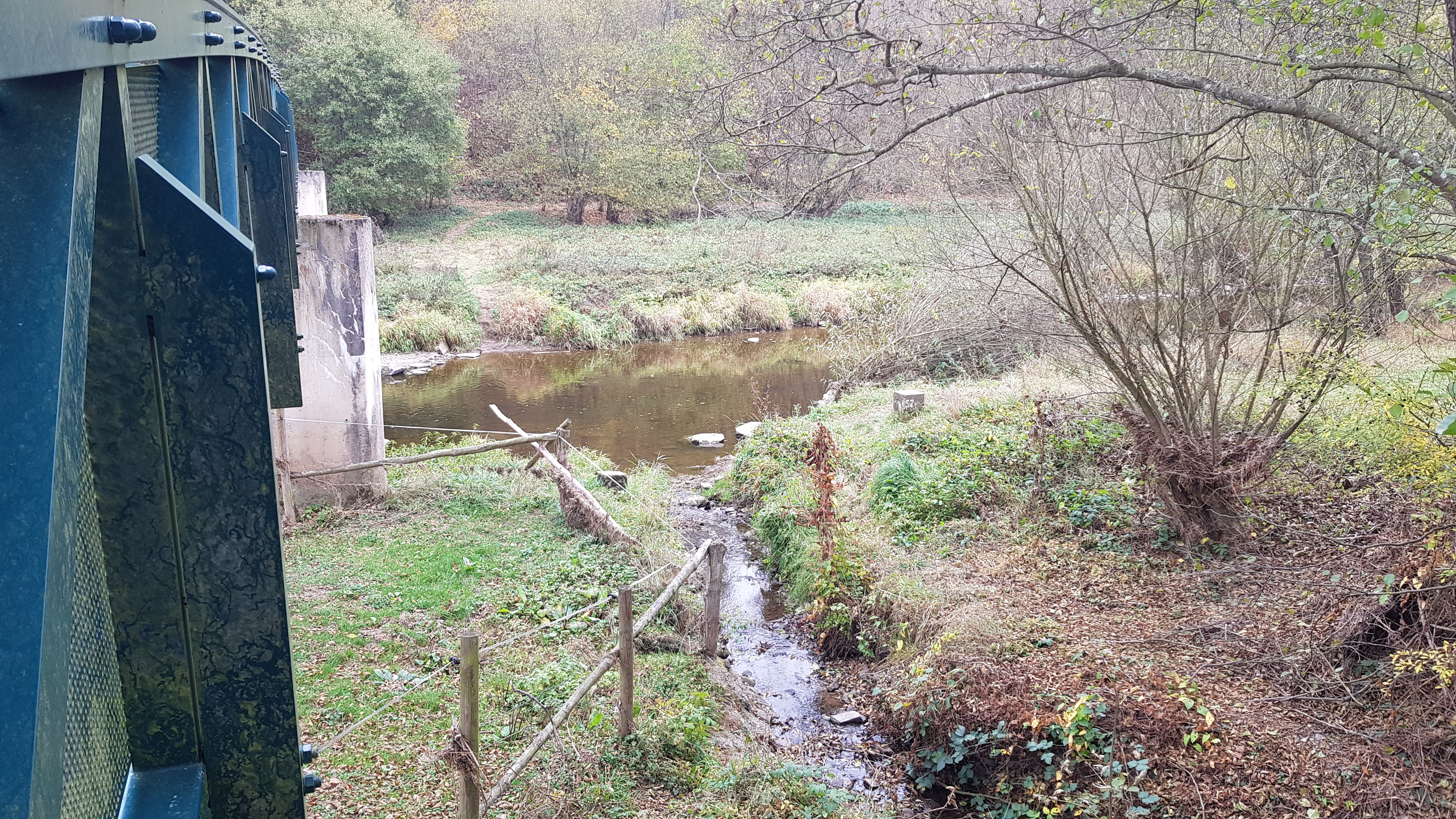 Tripoint Belgium Germany Luxembourg